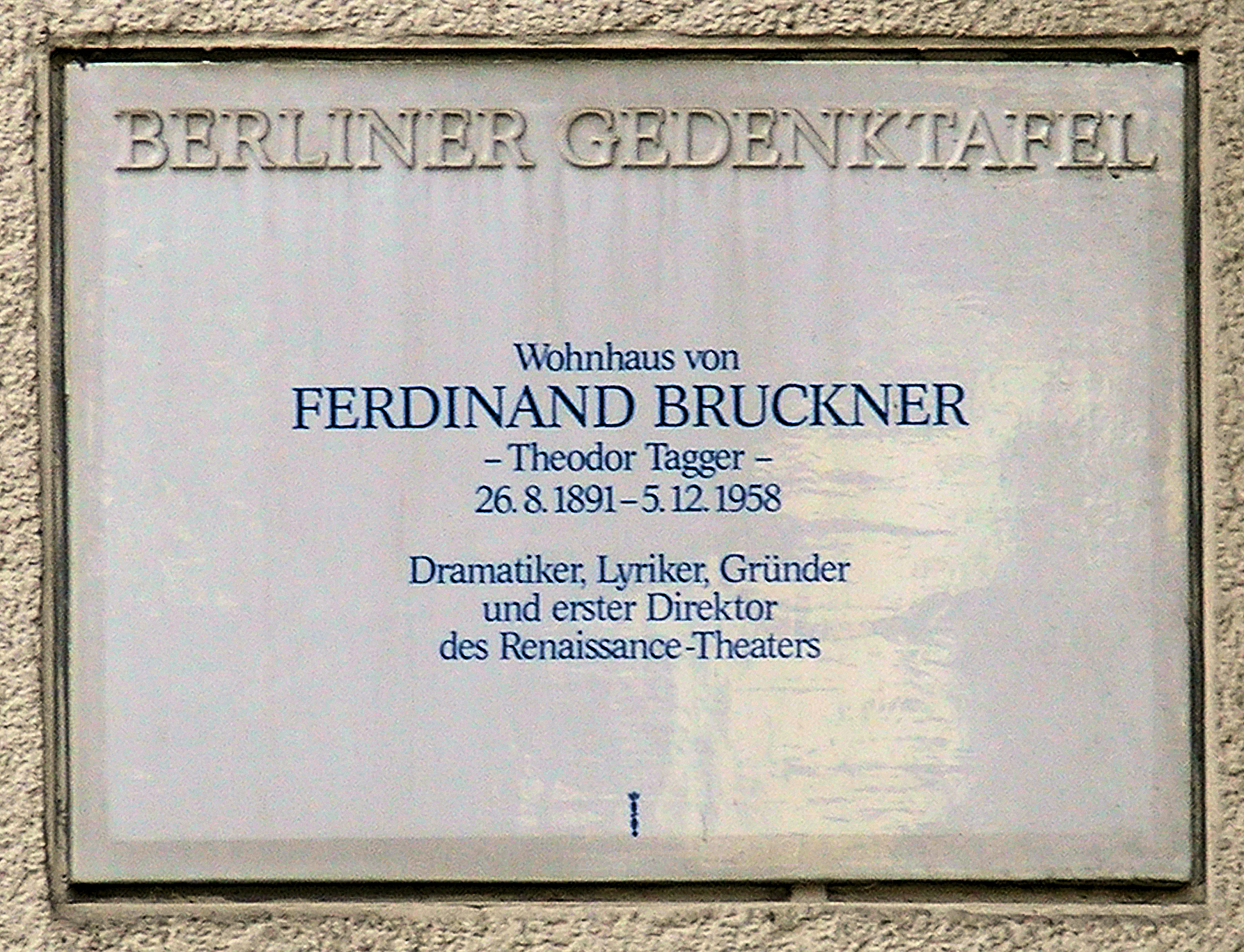 Berlin memorial plaque, Ferdinand Bruckner, Kaiserdamm 102, Berlin-Charlottenburg, Germany Koordinate:52°30′36″N 13°17′17″E / 52.51°N 13.28806°E